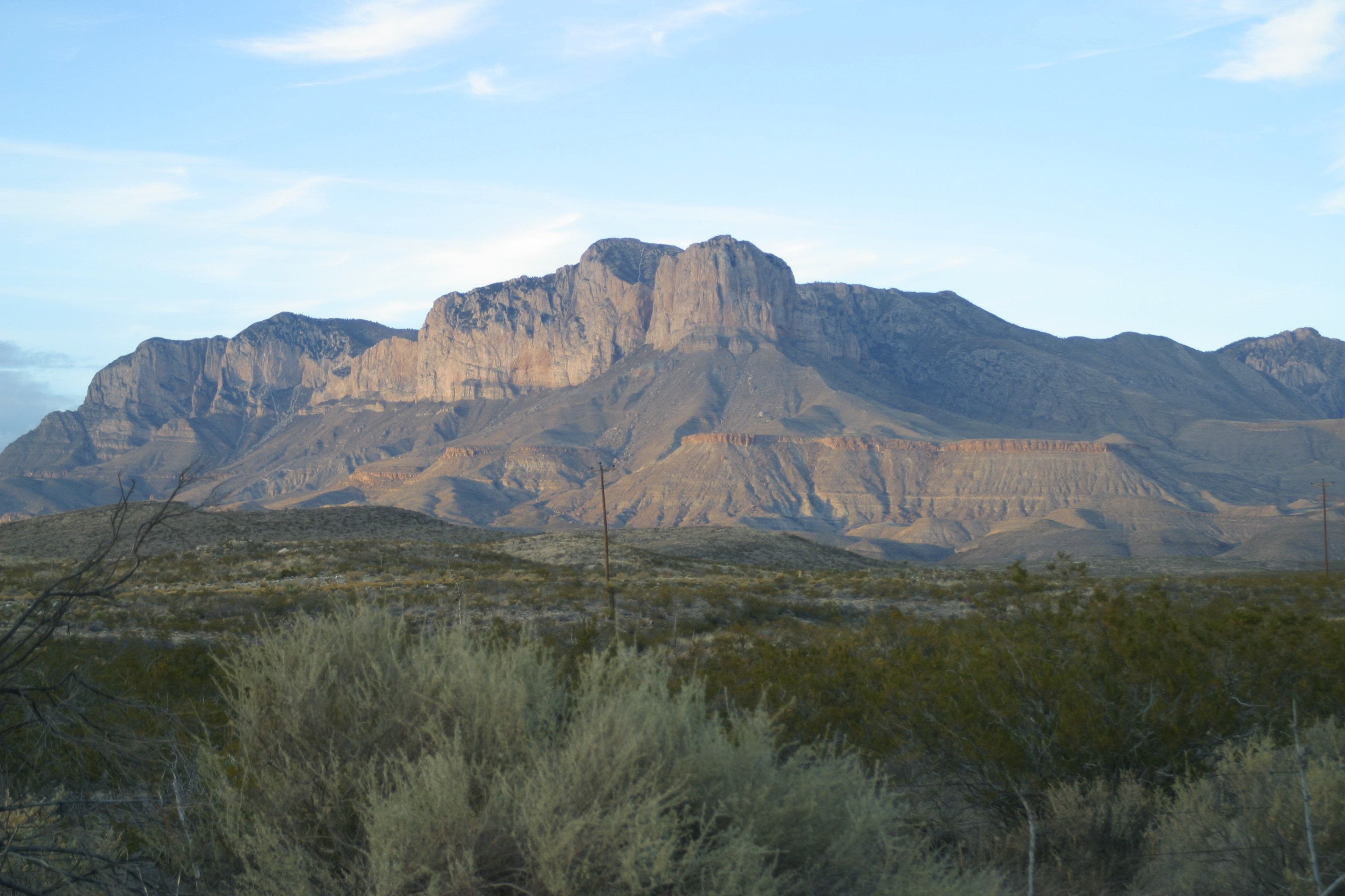 View of El Capitan and the Guadalupe Mountains of Texas and New Mexico